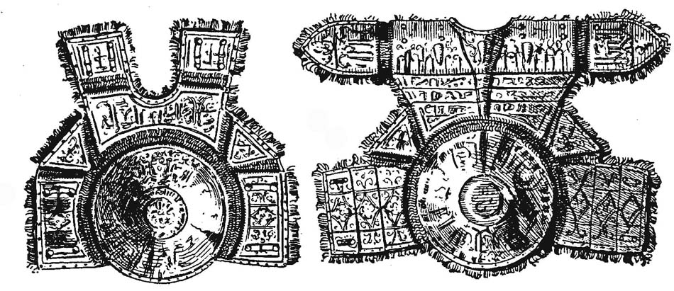 Arabian Mirror Armour owned Torgud Reis - king of Kairouan made my Ali, 16c